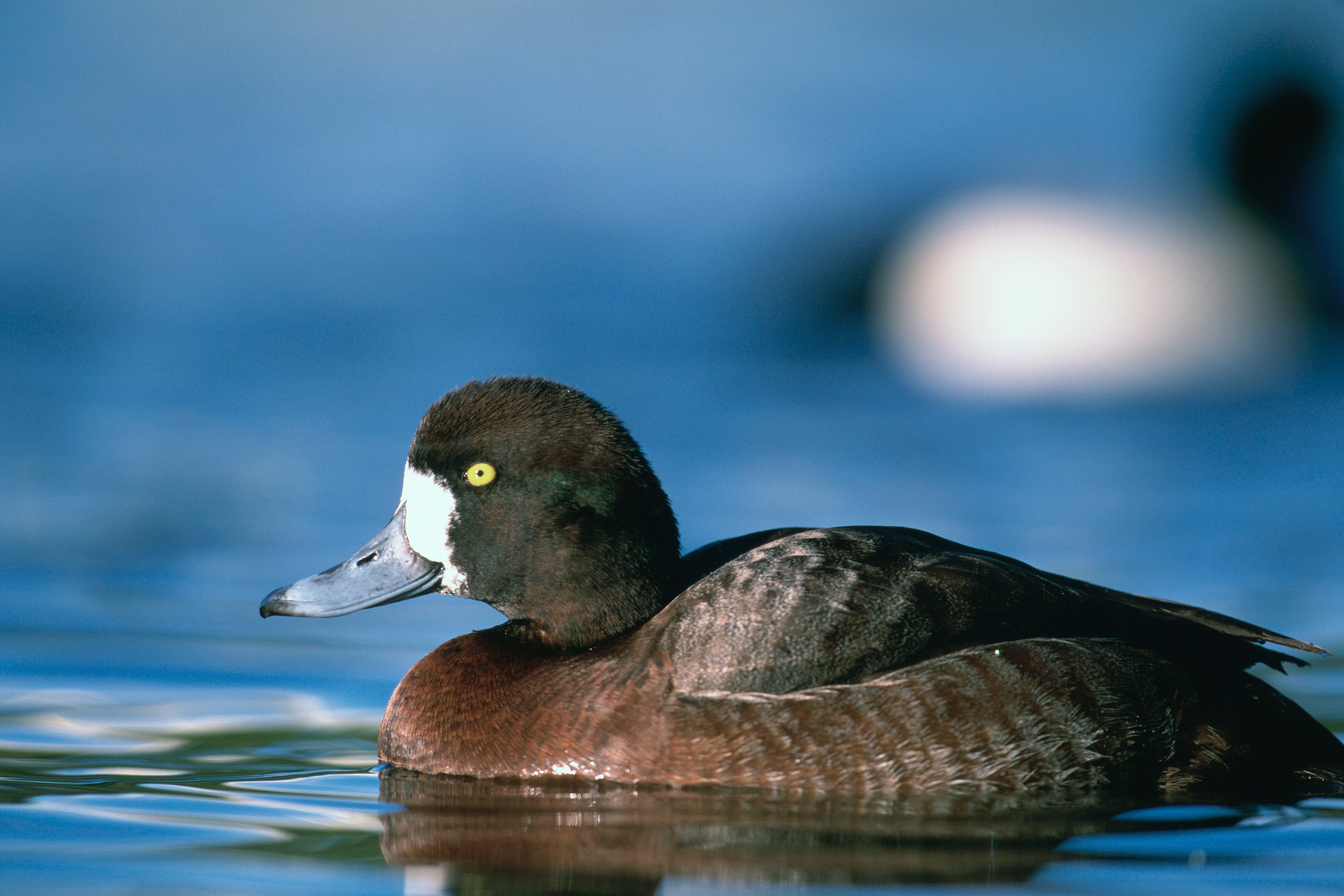 Female Greater scaup (Aythya marila). CA Central Valley